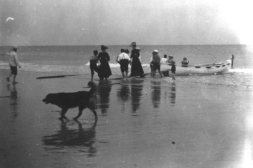 Landing at Bulwer, Moreton Island, Queensland, 1906 Landing at Bulwer at low tide on a calm day: No. 3: the last passengers. (Description supplied with photograph). Men and boys helping women disembark from a boat on Moreton Island, keeping the women's skirts dry.